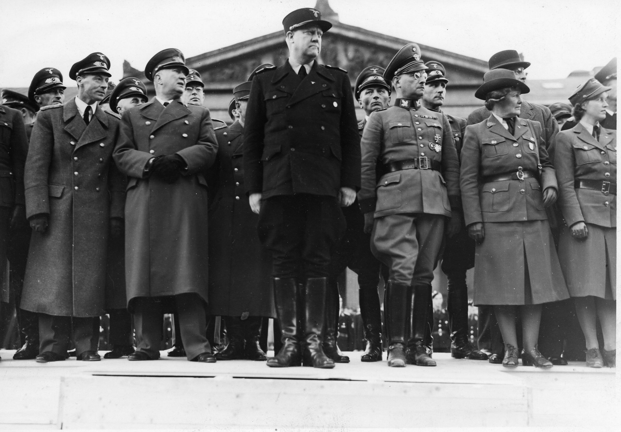 1942/09/25-27. RA/RAFA-3309/U 41A/6 /41-6-2 img312 NS holdt til sammen 7 partilandsmøter i 30-årene, men i løpet av perioden 1940-1945 ble det holdt bare ett riksmøte, 8. riksmøte i Oslo 26.-27.09.1942. Anslagsvis 10 000 deltagere fra hele landet samlet seg i hovedstaden til dette partimøtet. Det rikholdige programmet omfattet blant annet store parader der både arbeidstjeneste, kvinner, SS, NSUF, ung- og småhird defilerte, og i Frognerparken ble det holdt en stor minnemarkering for de falne. Avslutningsarrangementet fant sted på Bislet stadion. NS (the Norwegian Fascist party) held a total of seven party congresses in the 30s, but during the period 1940-1945 there was just one national meeting, the 8th national meeting in Oslo on September 26th and 27th 1942. An estimated 10,000 participants from across the country gathered in the capital for this party meeting. The extensive program included the major parades in which both labor service, women, SS, NSUF, and young party members paraded. There was a large memorial ceremony for the fallen in the Vigeland Park. The closing ceremony took place at Bislett Stadium.